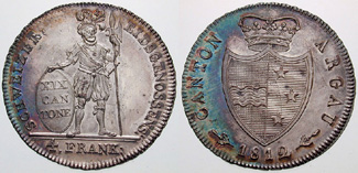 Switzerland, Aargau. 1812. AR 4 Franken or Neuthaler (29.36 g). Crowned arms Knight resting right hand on shield and holding halberd in left hand. Davenport 361; KM 20.